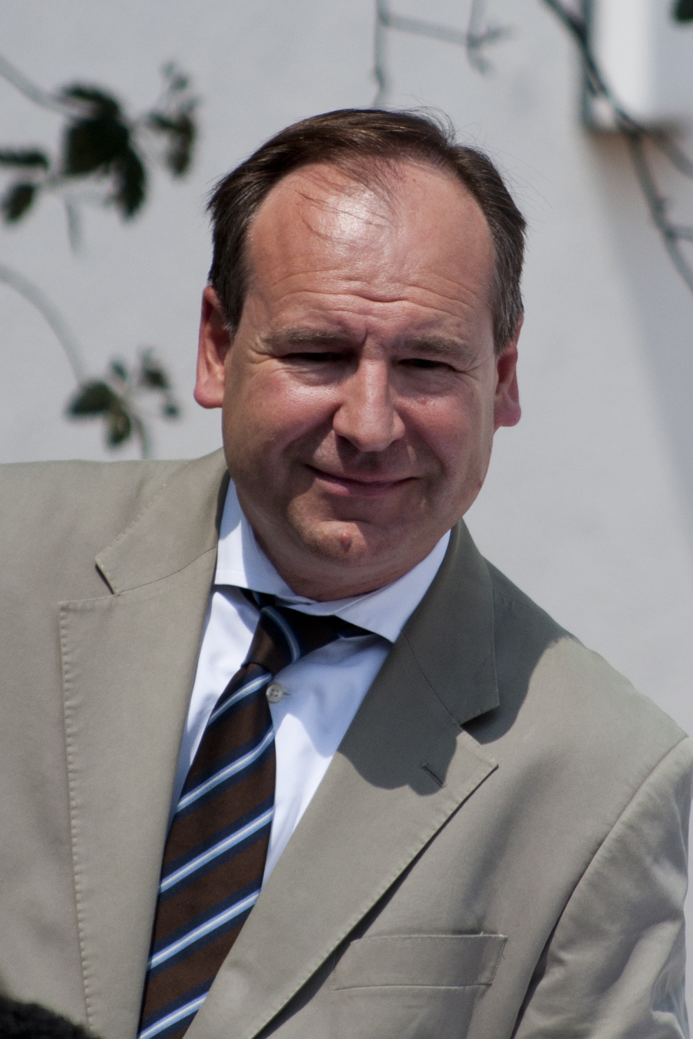 Oliver Quilling, german politician